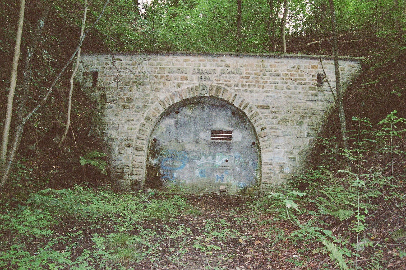 The old railway tunnel of the former coal mine Zeche Baaker Mulde in Bochum, Germany